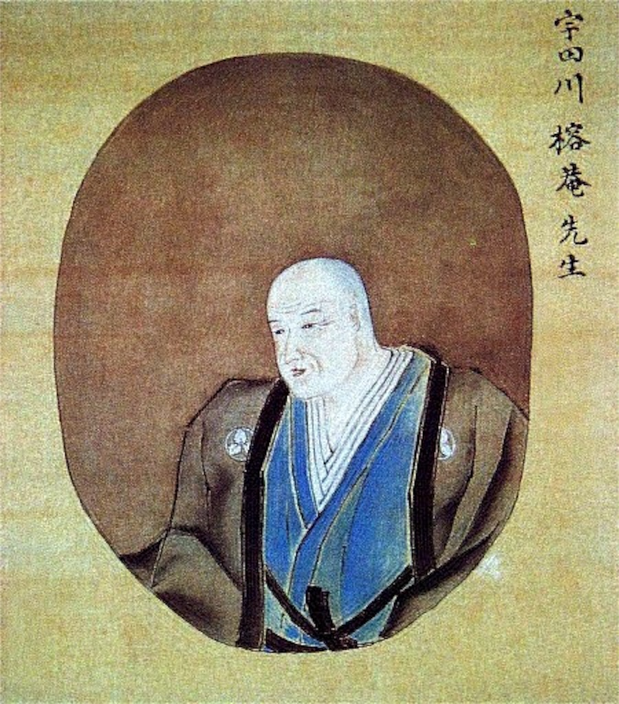 Portrait of Utagawa Yoan.